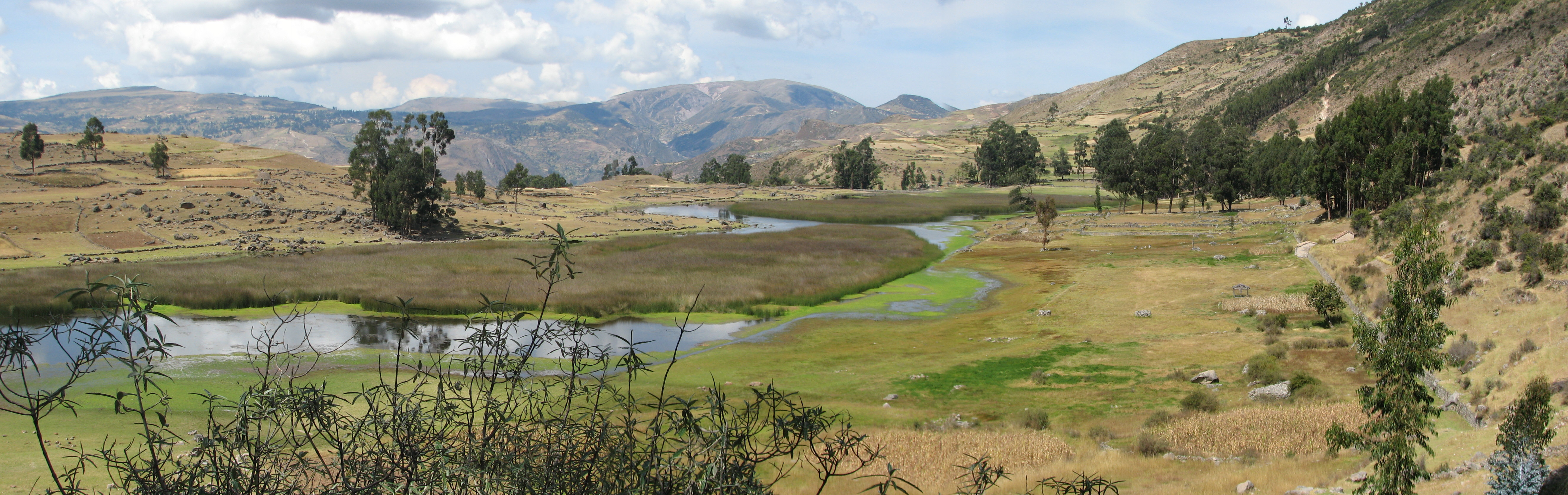 Pumacocha Archaeological site (overview)